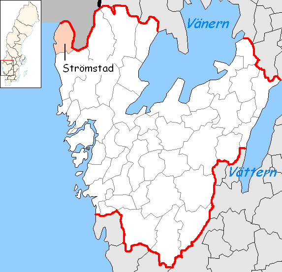 Strömstad Municipality in Västra Götaland County Designed by me. Mere outlines are a PD source from